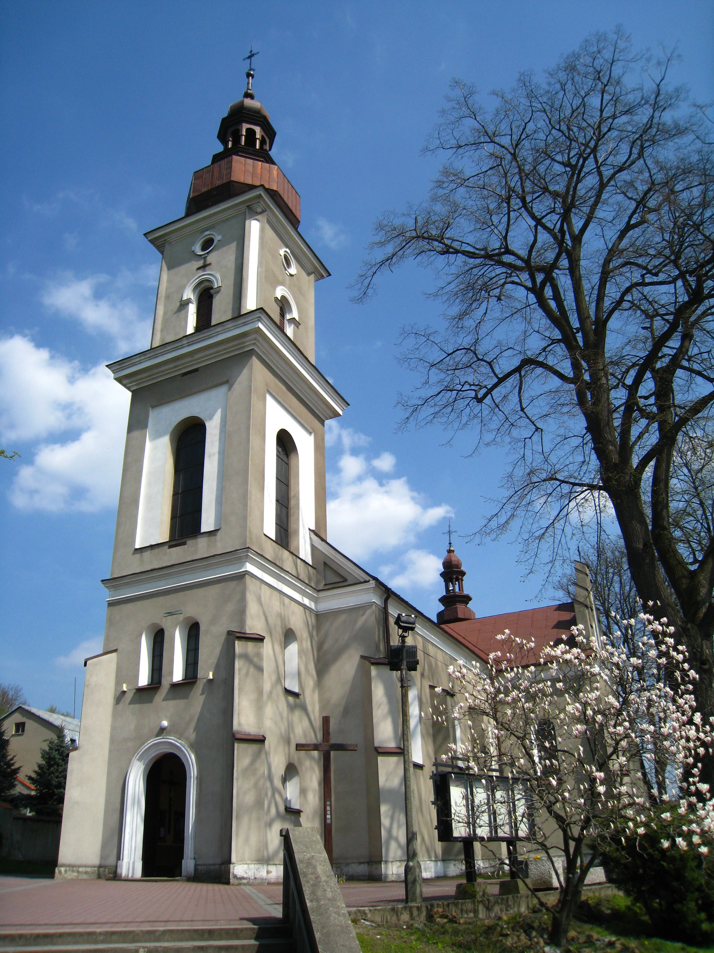 Church in Babice village, near Oswiecim, Lesser Poland